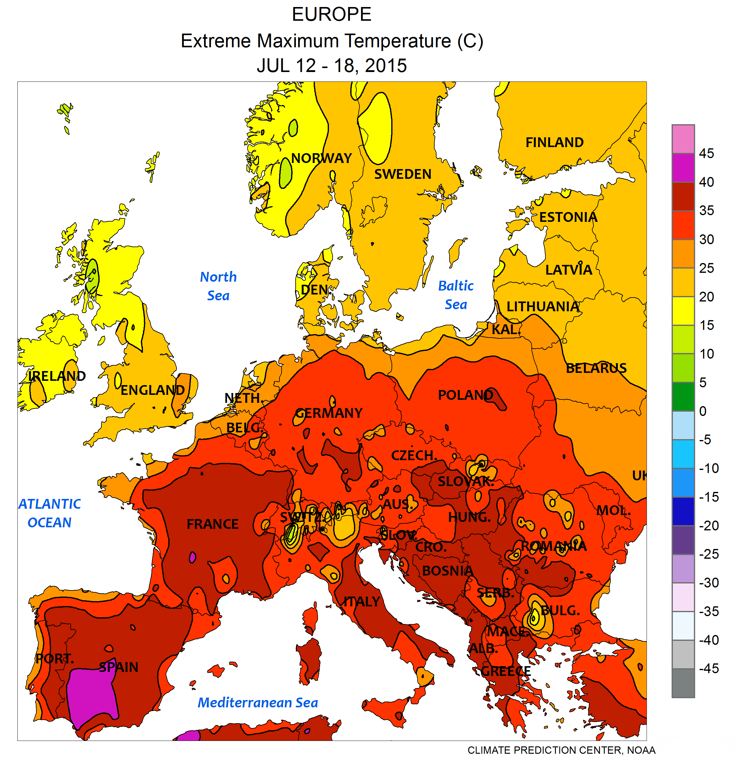 Europe: Extreme maximum temperature July 12 - 18, 2015, computer generated colours, based on preliminary data